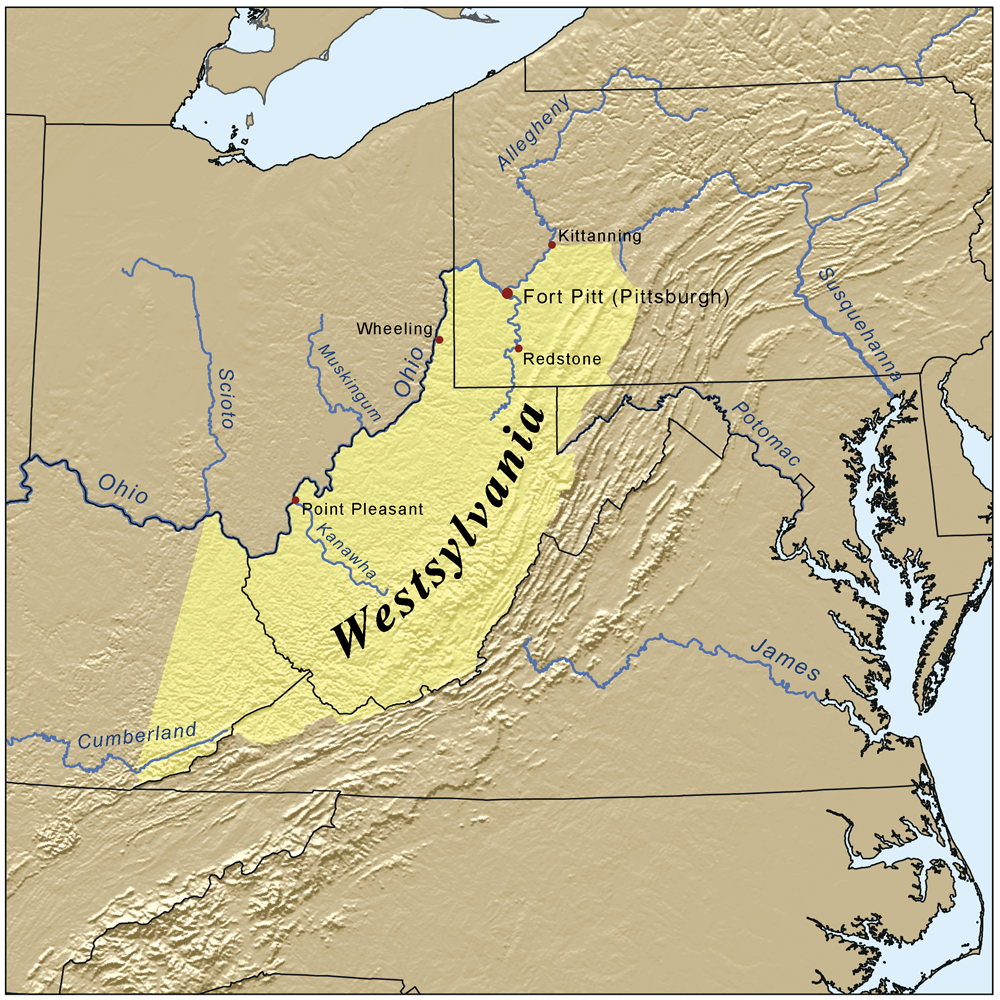 This is a map showing the proposed state of Westsylvania.